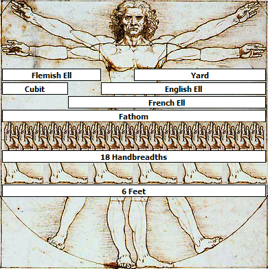 This derivation of the Vitruvian Man by Leonardo Da Vinci, depicts seven historical units of measurement: the cubit, the flemish ell, the english ell, the french ell, the fathom, the hand, and the foot.